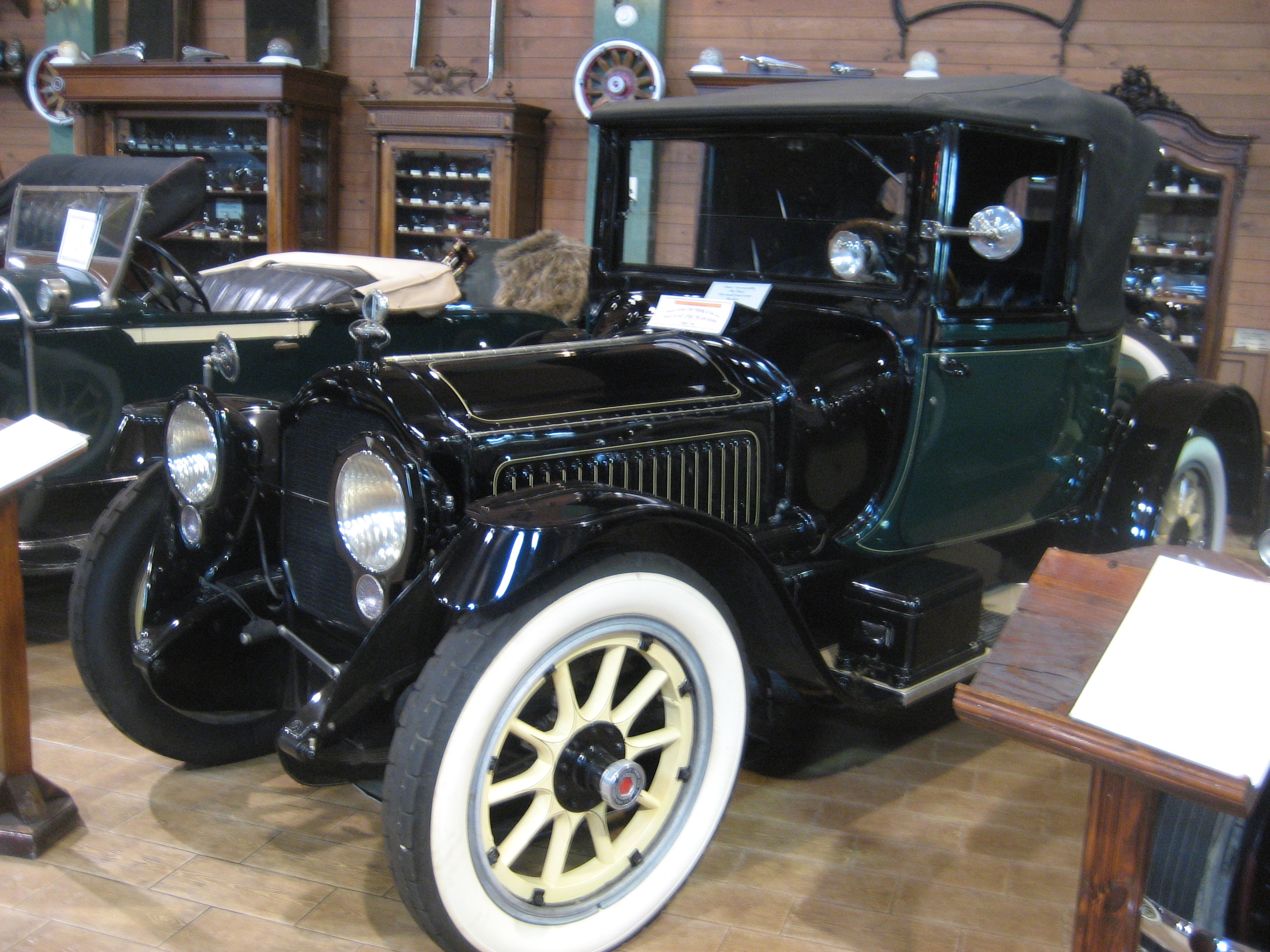 1917 Packard Twin Six Model 2-25 Convertible Coupe 12 cylinder, 88hp, 424cu inch engine, wheel base 126 1/2 in. Car shows Motometer on top of radiator. Unusual accessories are rear view mirror on far side and factory search light in windshield Fort Lauderdale Antique Car Museum.